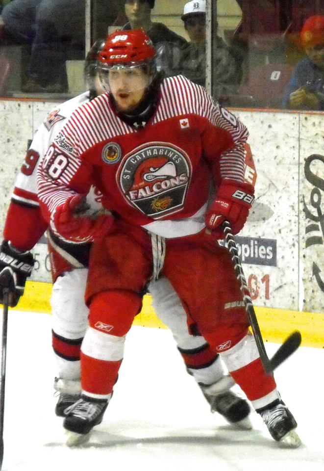 This photo was taken by Devan Mighton during the 2014 GOJHL playoffs.